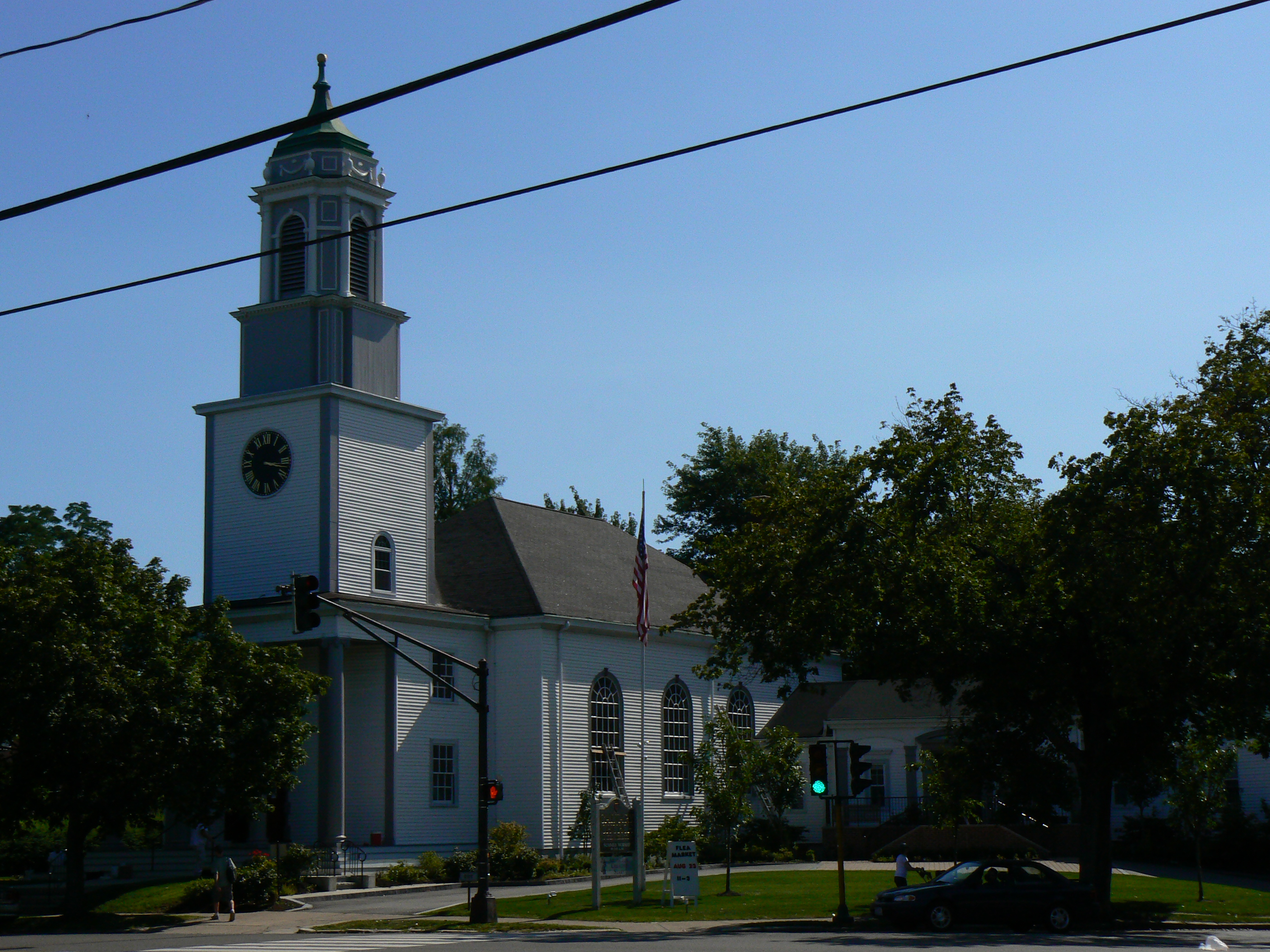 A photo of the historic Calvary Methodist Church in Arlington, Massachusetts. Its steeple was designed by Charles Bulfinch.